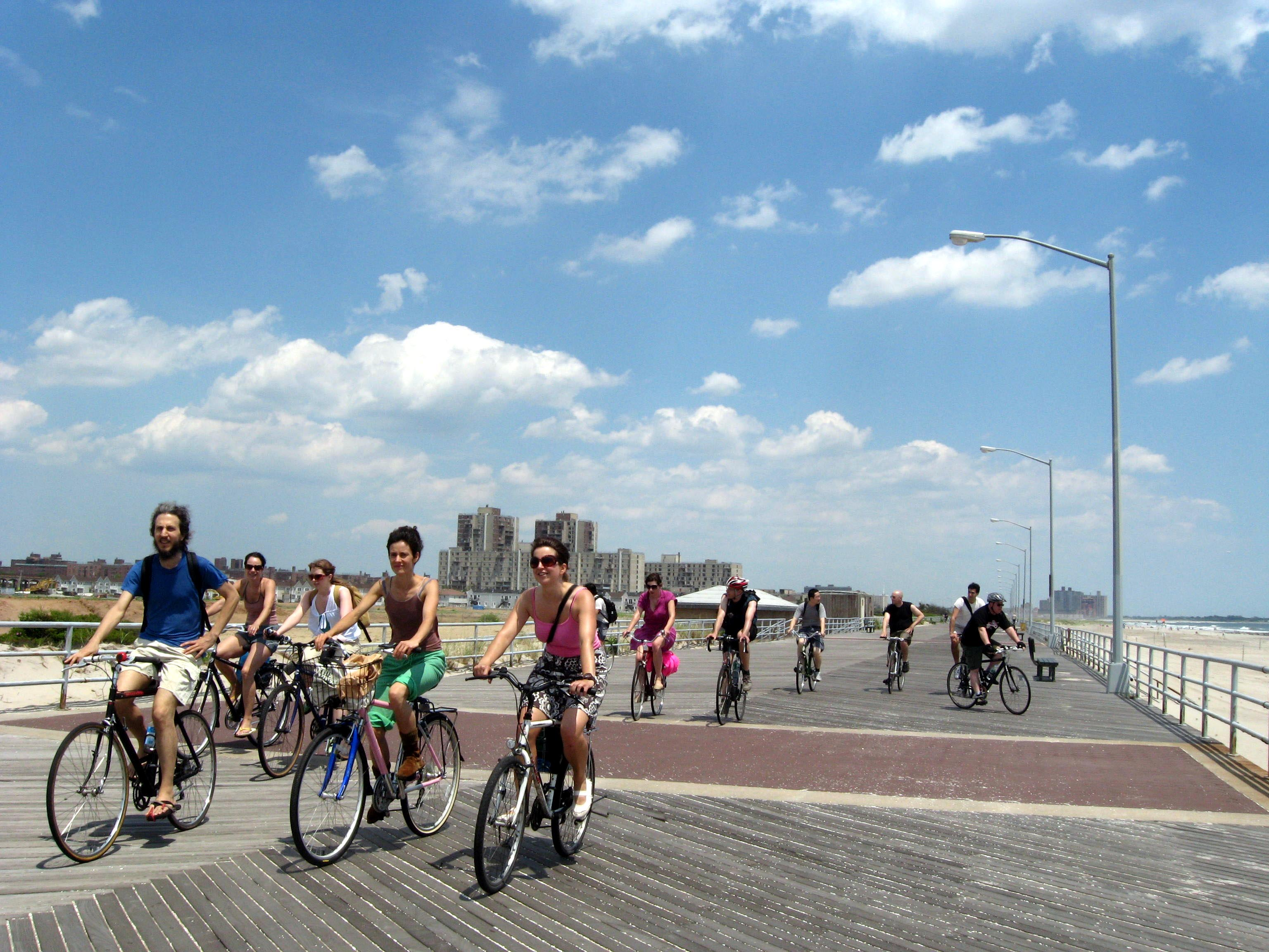 Looking northeast on a sunny early afternoon as European visitors (two French and the others mostly German) approach from Far Rockaway, Queens, led by German art photographer Bettina Johae (in pink, foreground) in connection with her "Borough Edges NYC show".